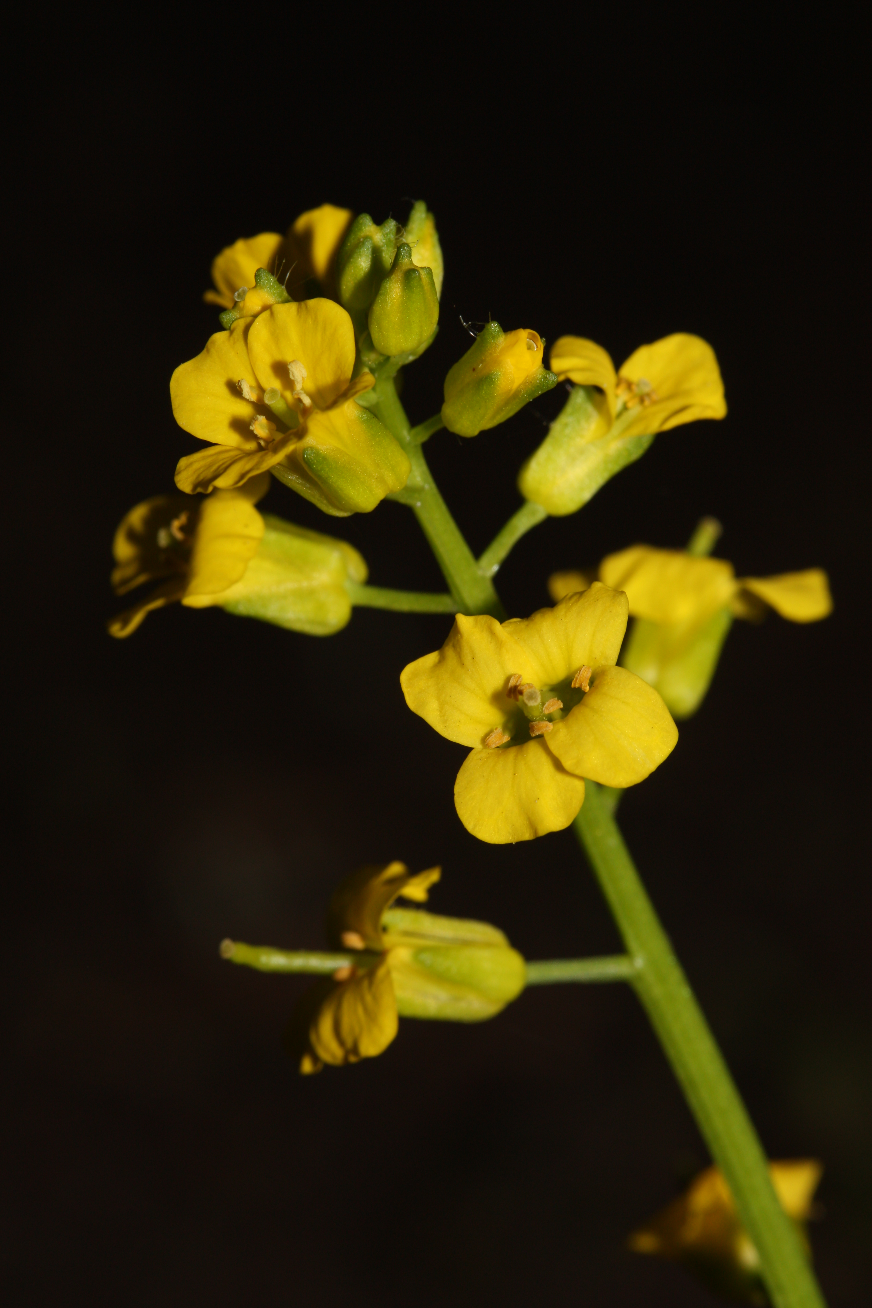 American Yellow-rocket, American Wintercress